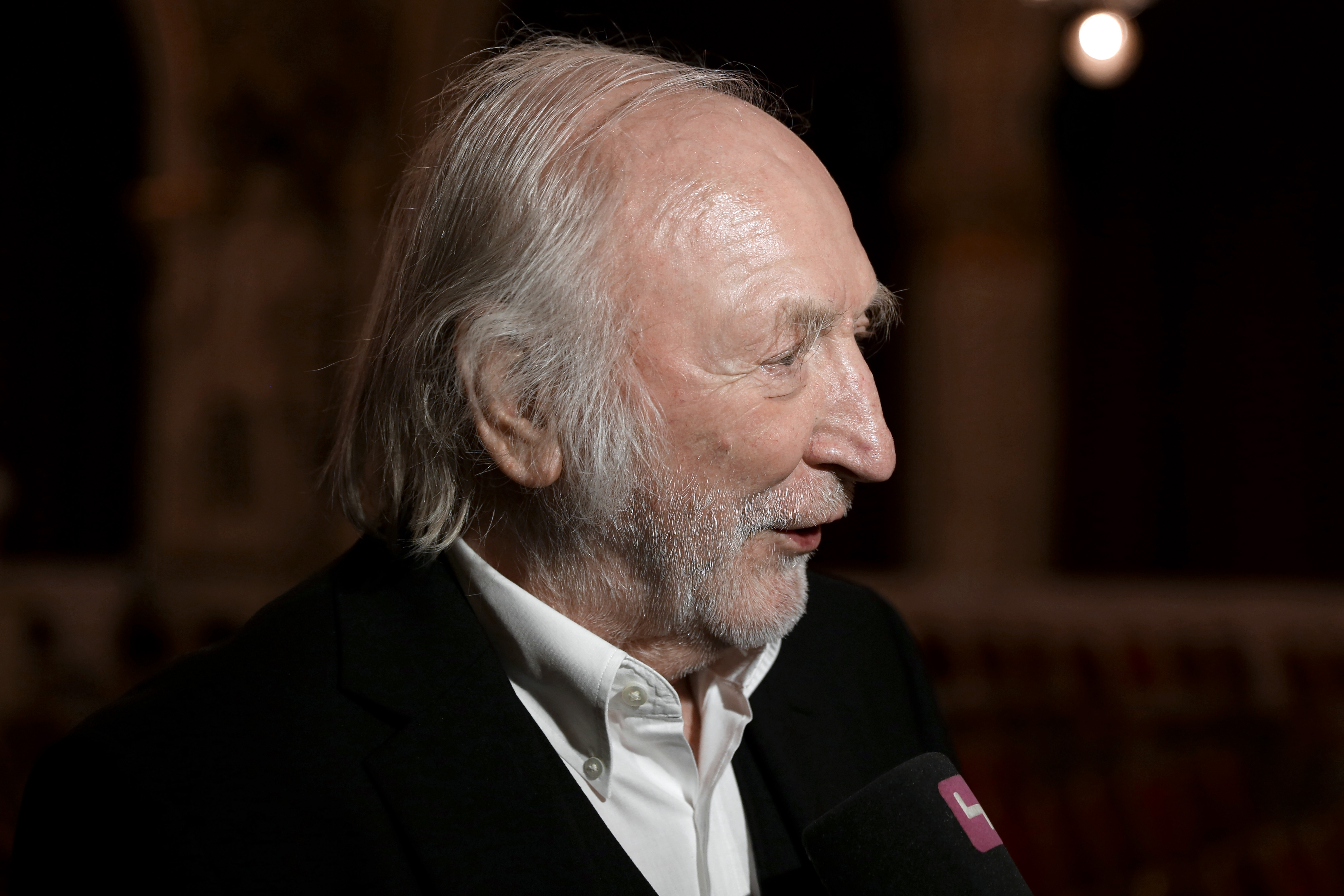 Karl Merkatz at the Austrian Film Awards 2015 at Rathaus, Vienna,Austria.